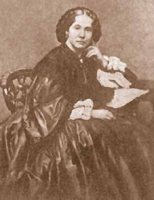 Russian writer Nadezhda Stepanovna Sokhanskaya, who used the pseudonym Nadezhda Kokhanovskaya